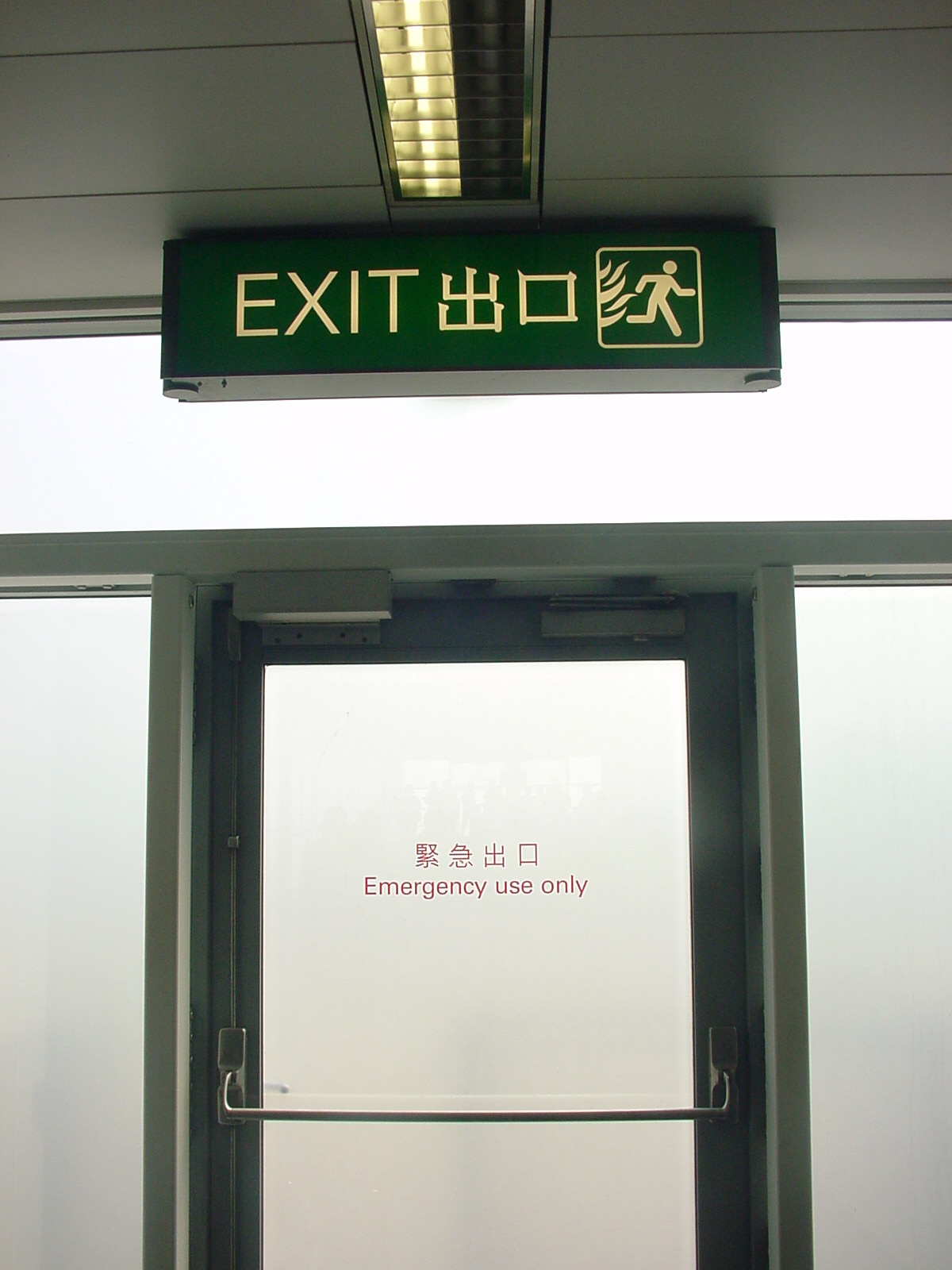 Emergency exit signs in a jet bridge in Hong Kong International Airport (VHHH)